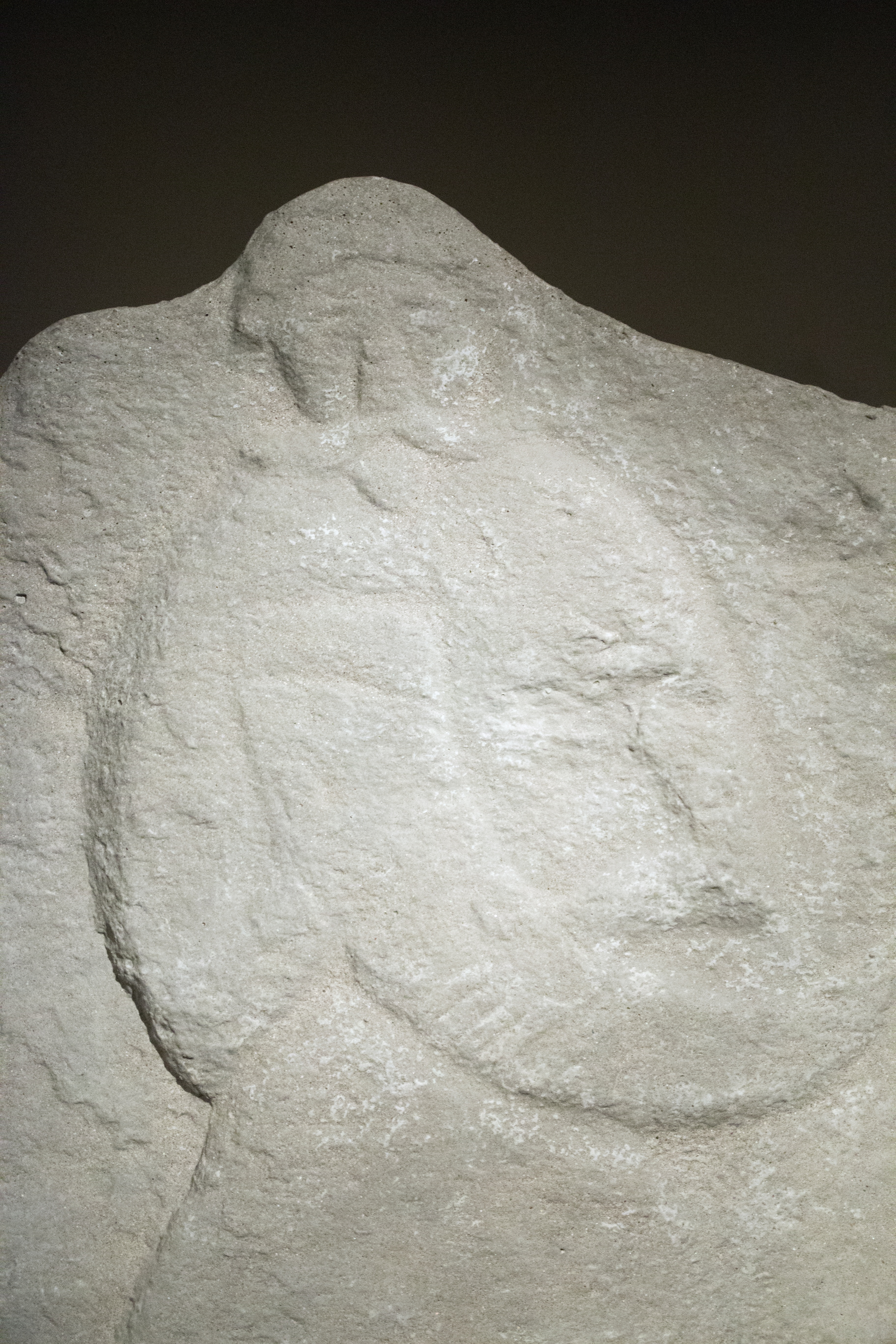 Casting: The stone panel with flat-relief of Svantovit, Island of Ruegen, 1150 to 1200. Mannheim, Reiss Engelhorn Museen. (Original: granite, in wall of church in Altenkirchen.)